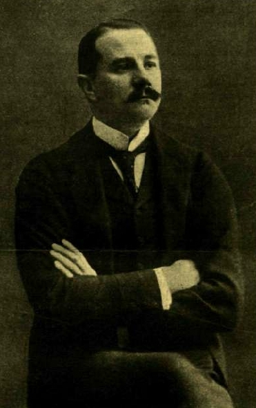 Photograph of Béla Serényi